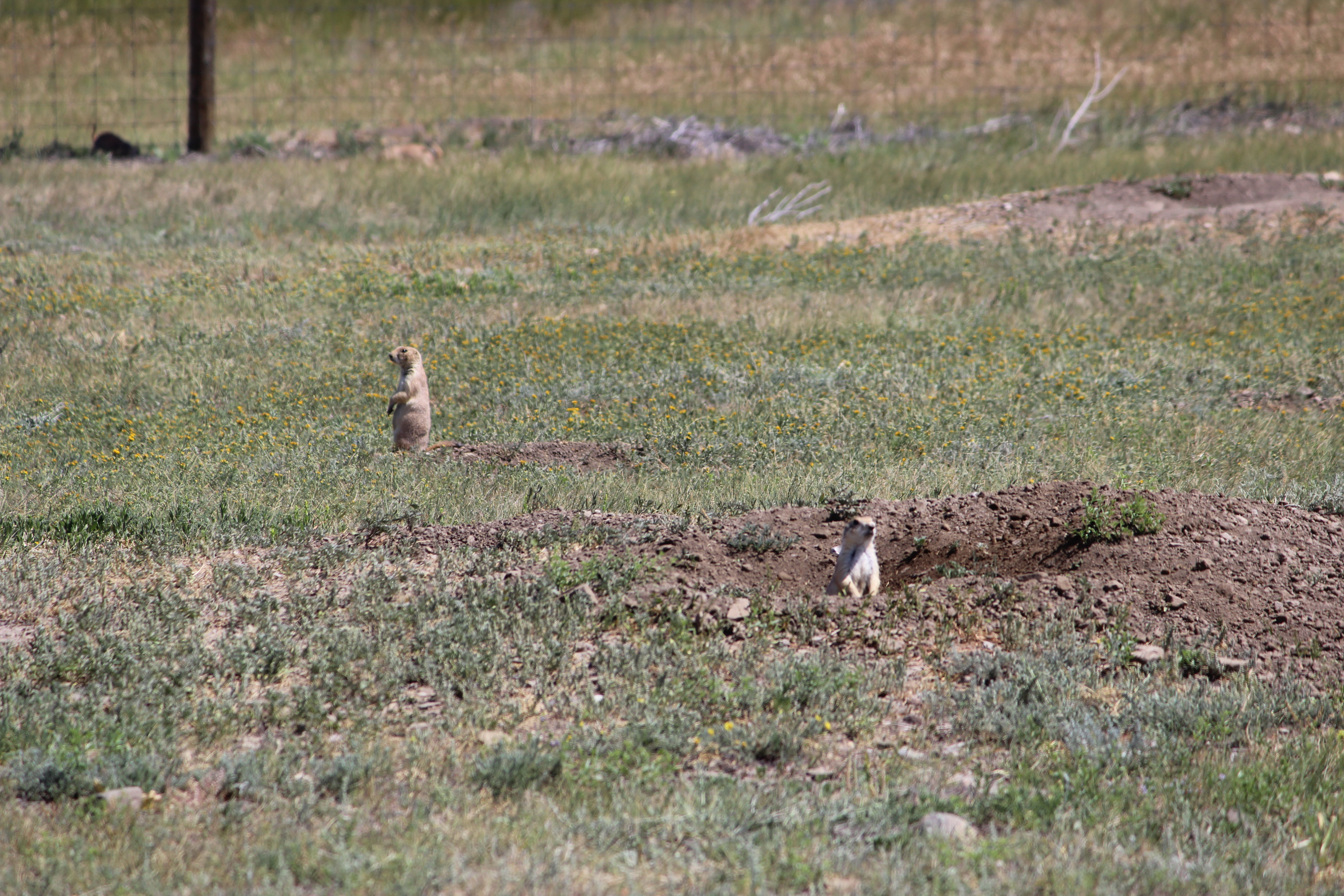 Feel free to use this image, but please give credit with a link to